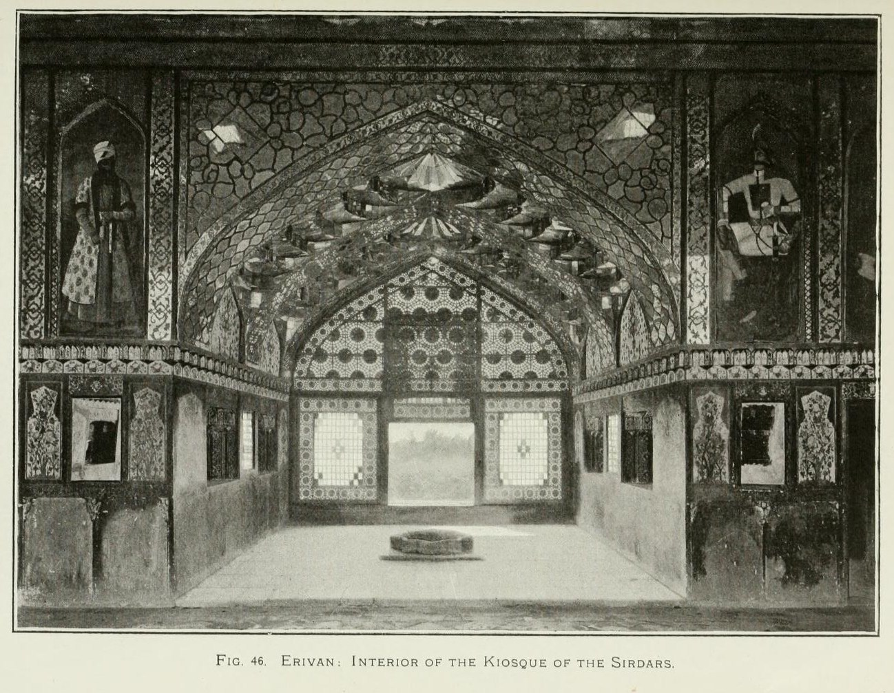 Yerevan Sardars' Palace in Yerevan Fortress